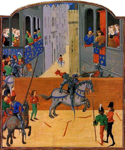 John de Beaumont, 2nd Lord of Beaumont, is deathly wounded in tournament at 14 April 1342. Miniatur from the Chronicles of England by Jean de Wavrin. Bibliothèque nationale de France, Paris.